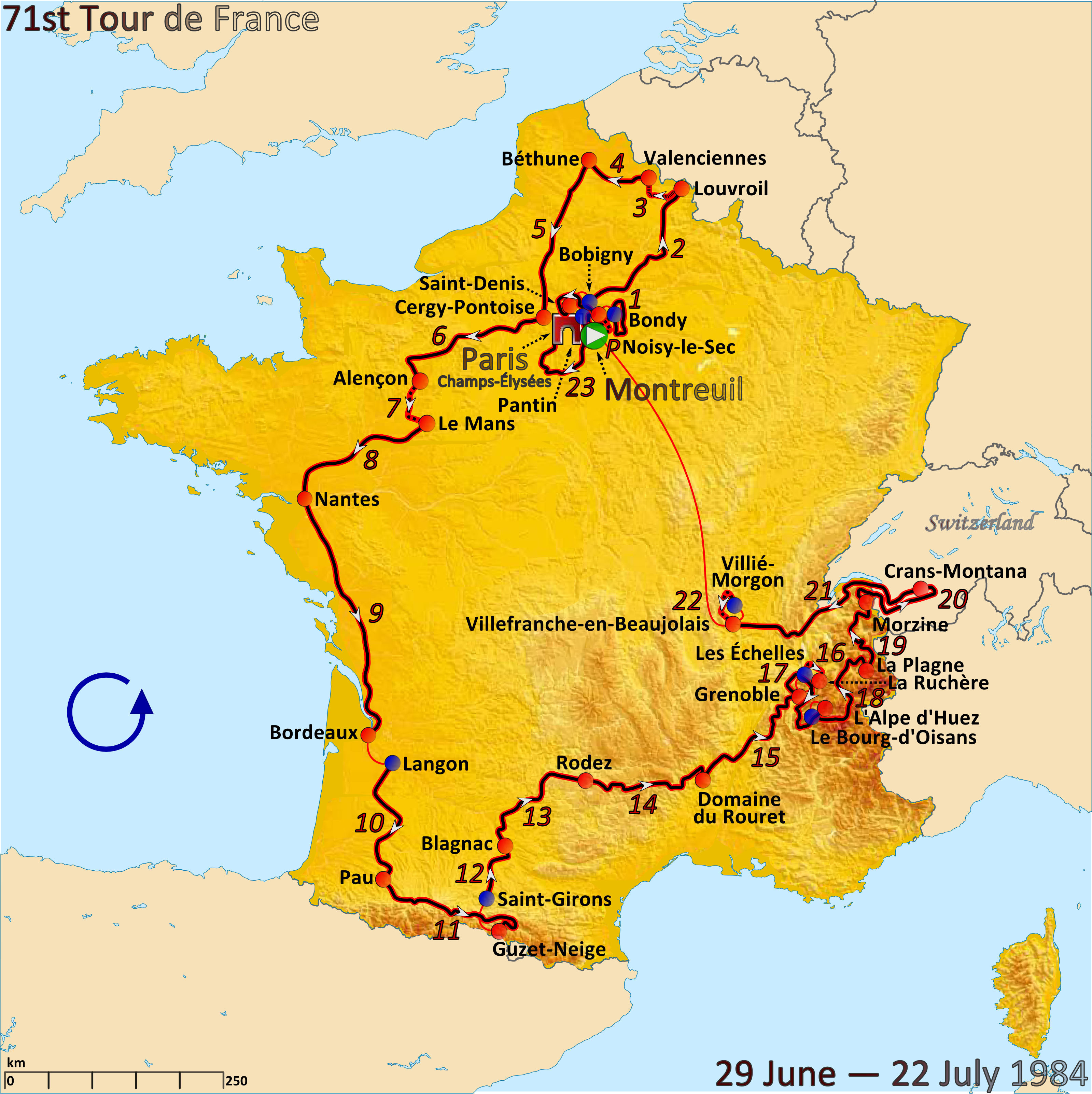 Map of the 1984 Tour de France created in Inkscape using accurate stage maps from touratlas.nl.